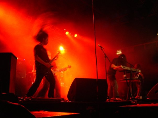 Mar de Grises performing at Firebox Metal Festival, Finland 2008